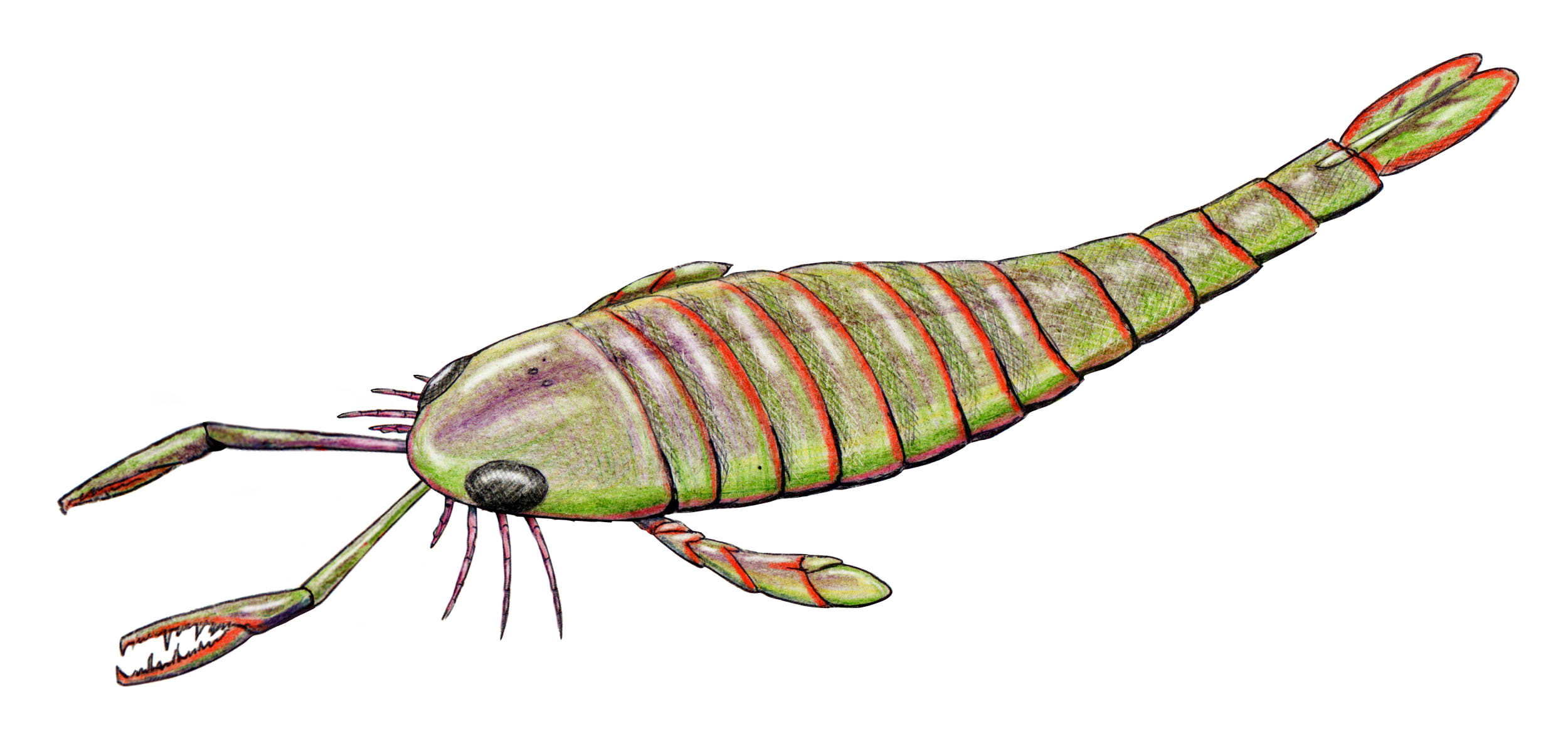 Erettopterus osiliensis, pterygotid eurypterid from Late Silurian of Saaremaa (Estonia) and North America